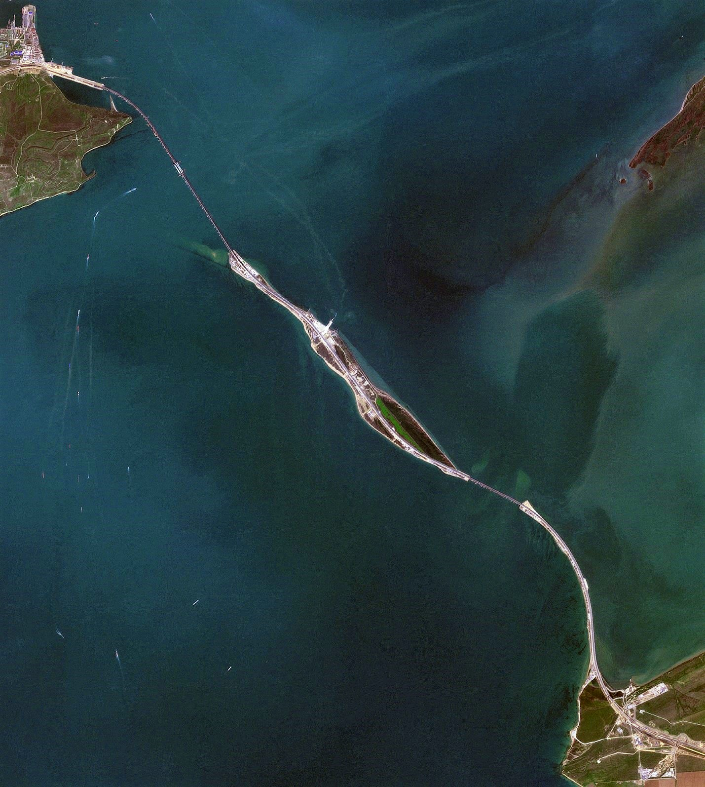 Kerch Strait Bridge, Sentinel-2 imagery, 2018-APR-14, spatial resolution 10 m, near natural colours